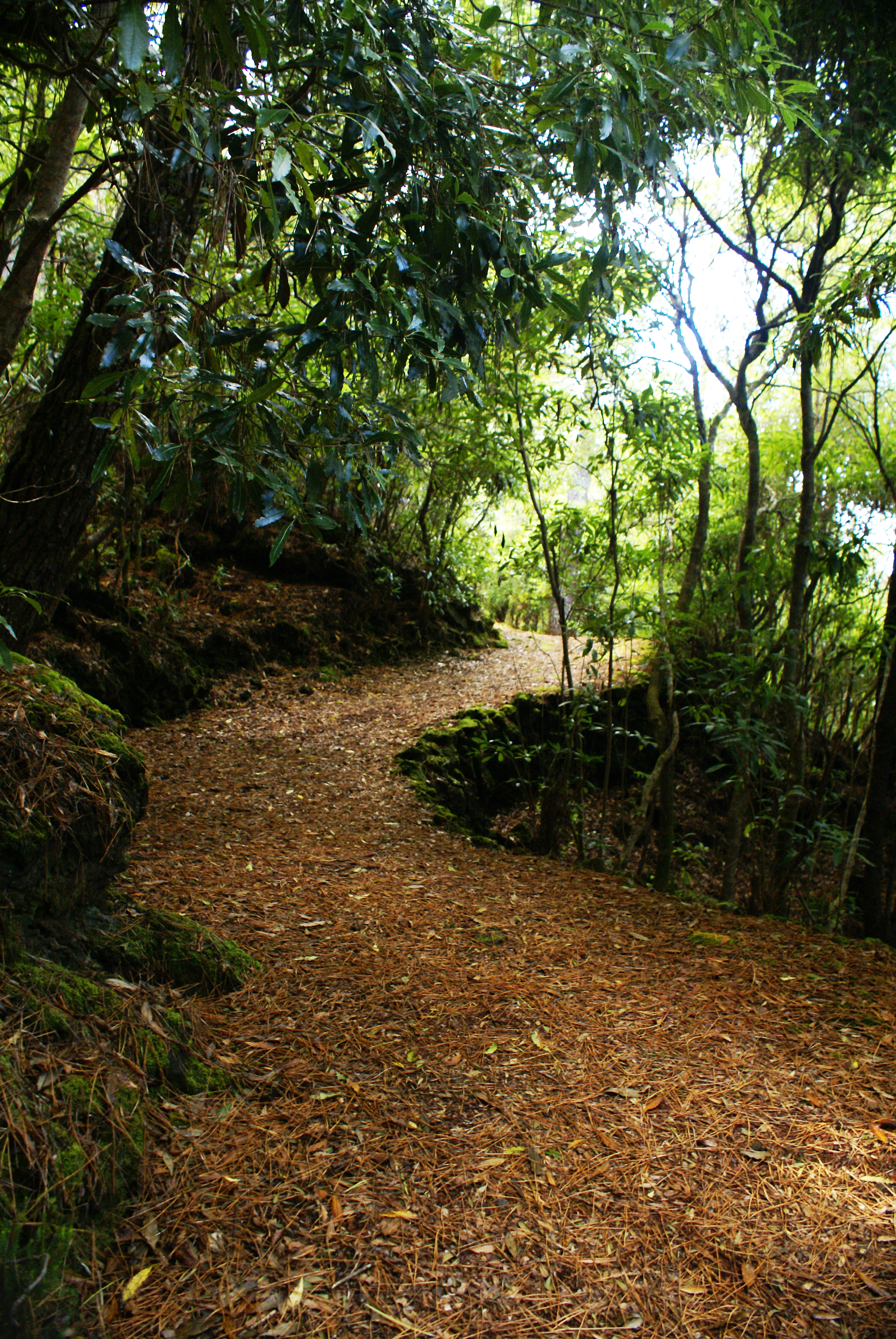 Parque Florestal da Prainha, caminhos, concelho de São Roque do Pico, ilha do Pico, Açores, Portugal